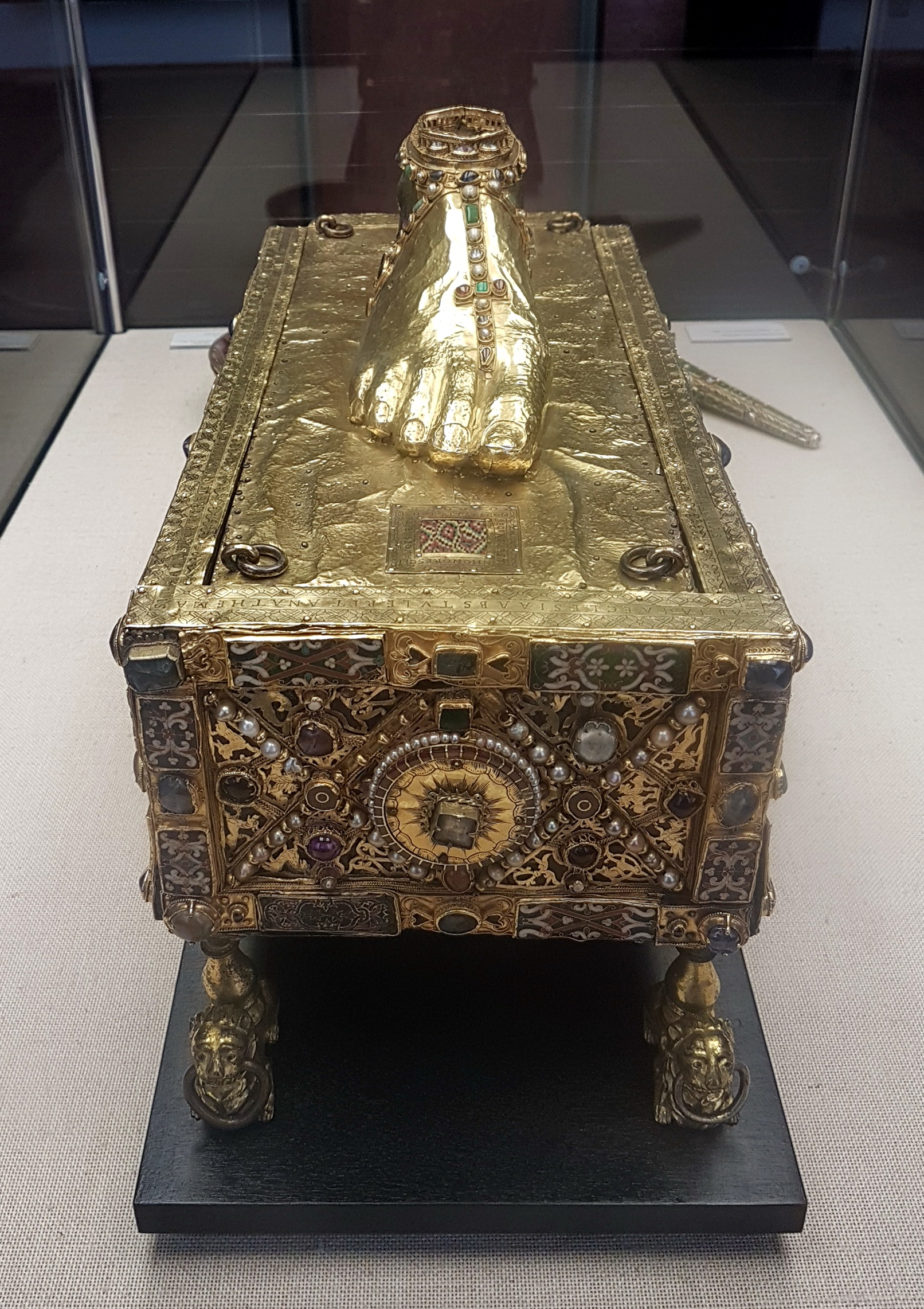 View of the so-called portable altar of Saint Andrew (Andreas-Tragaltar or Egbert-Schrein) in the treasury of Trier Cathedral, Germany. The reliquary contained a sandal of Saint Andrew, as well as the cup of Saint Helena, shackles from the chain of Saint Peter, some of his beard hair, and a nail of the Holy Cross (in a separate reliquary). The object is the most famous work in the Trier Cathedral treasury and a major work of the 10th-century Egbert workshop in Trier.